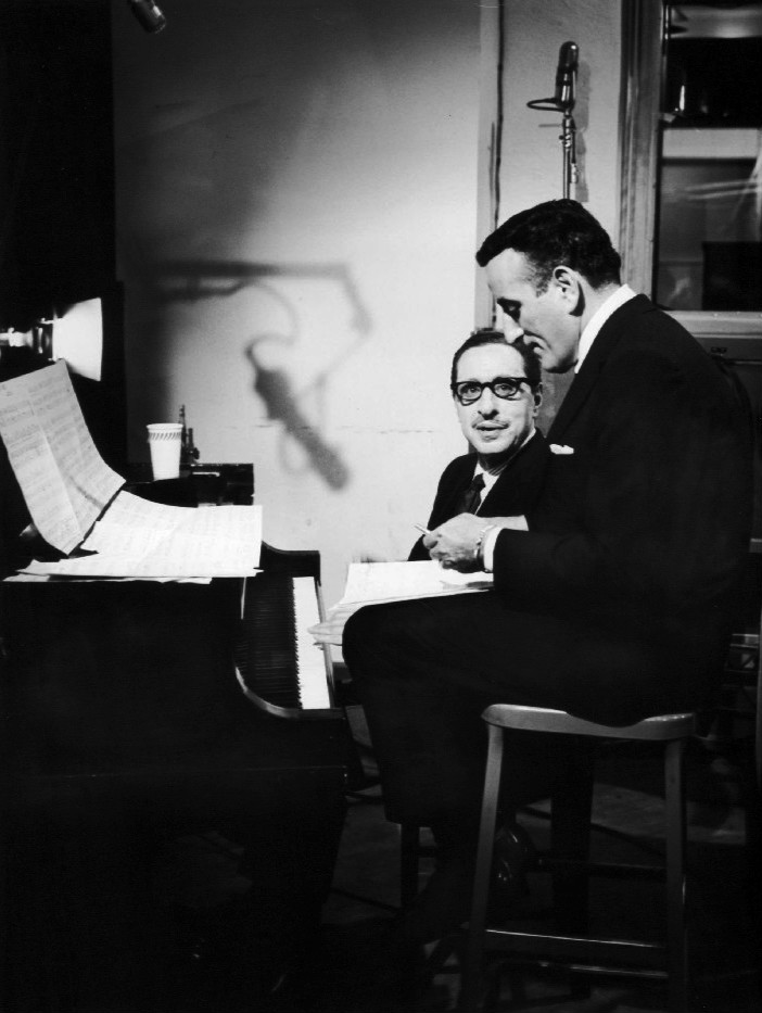 Photo of composer Harold Arlen and singer Tony Bennett rehearsing for the television program The Twentieth Century. The program was a series of documentaries; this one dealt with the music of Harold Arlen.